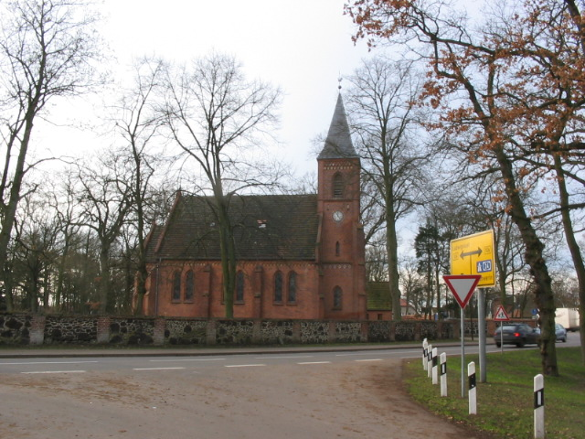 Church of Woebbelin, Germany